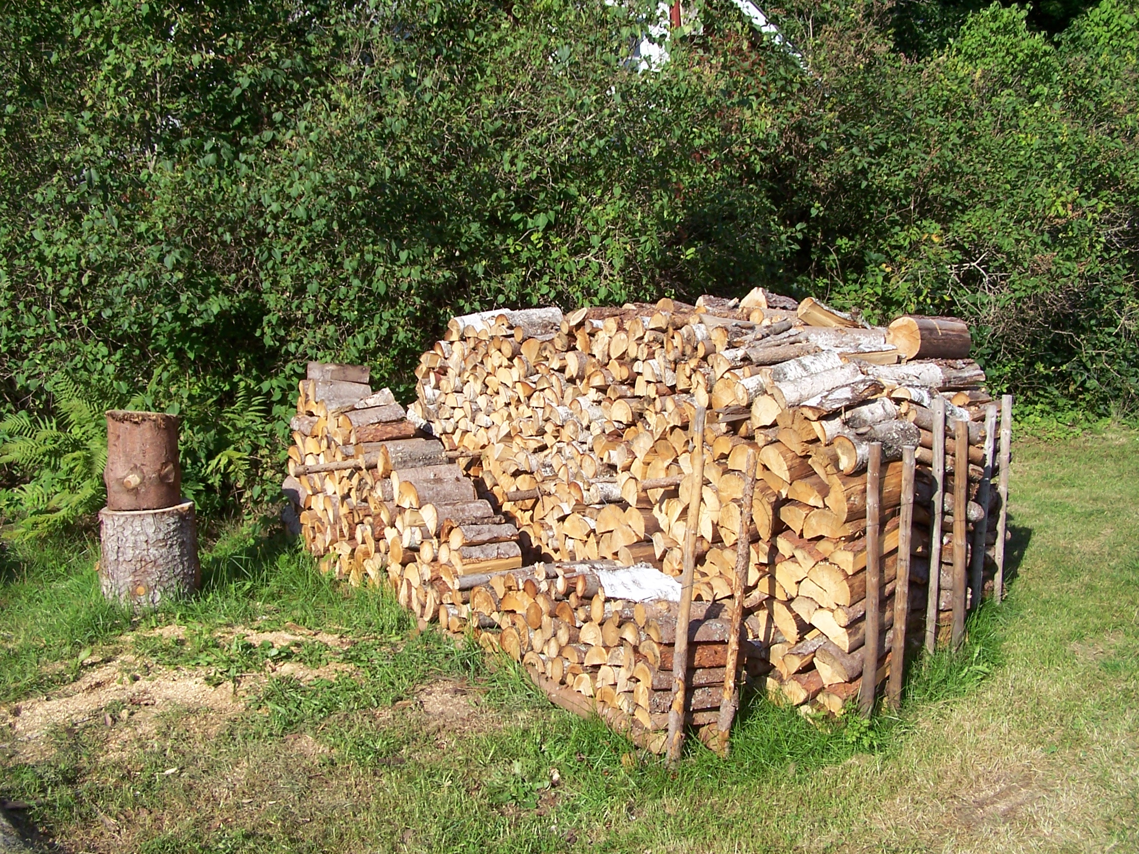 Wood wall, Stora Lönnemåla, municipality of Ronneby, Sweden.